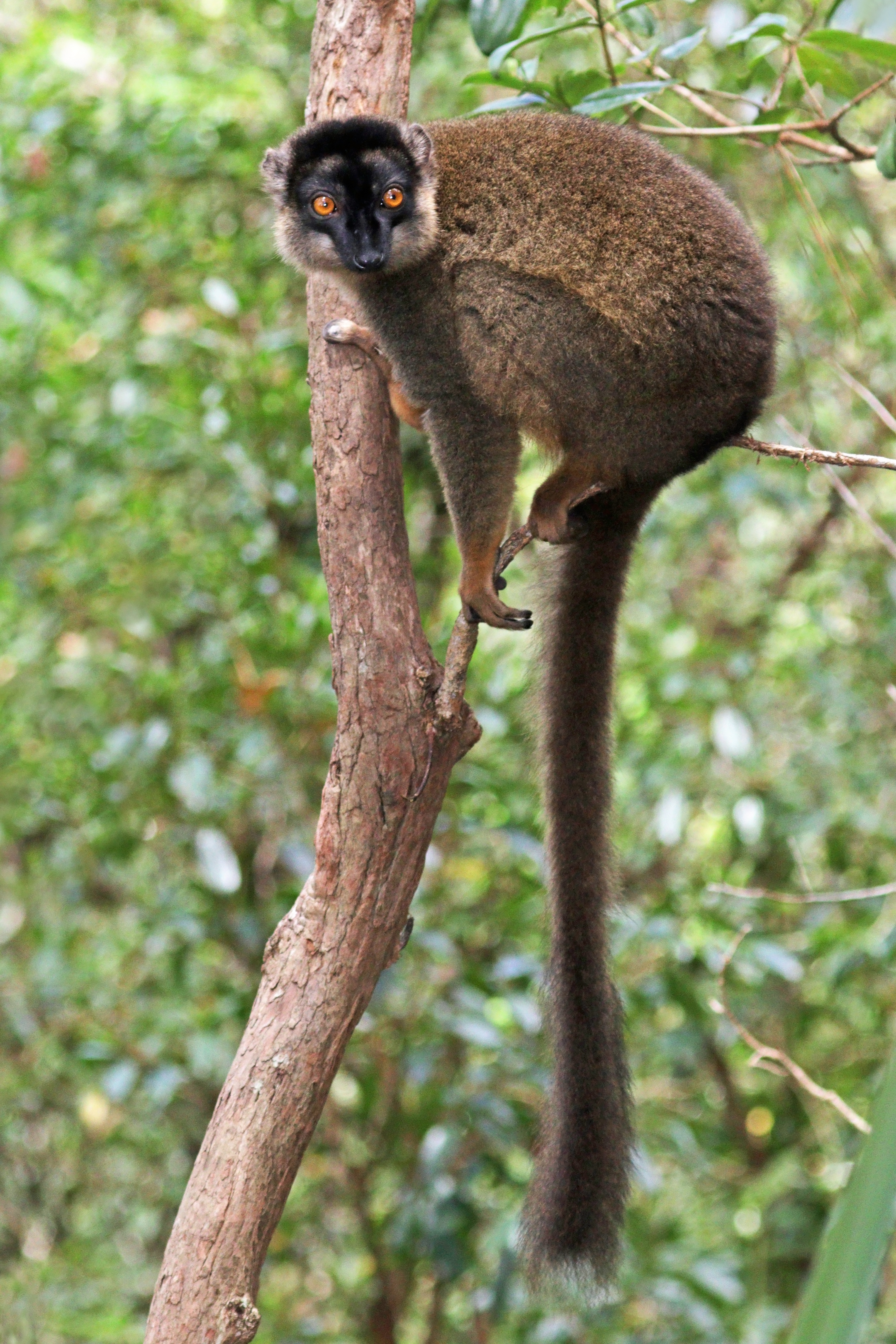 Common brown lemur (Eulemur fulvus) male, Peyrieras Nature Reserve, Madagascar. These are wild, but habituated and introduced from another part of Madagascar.